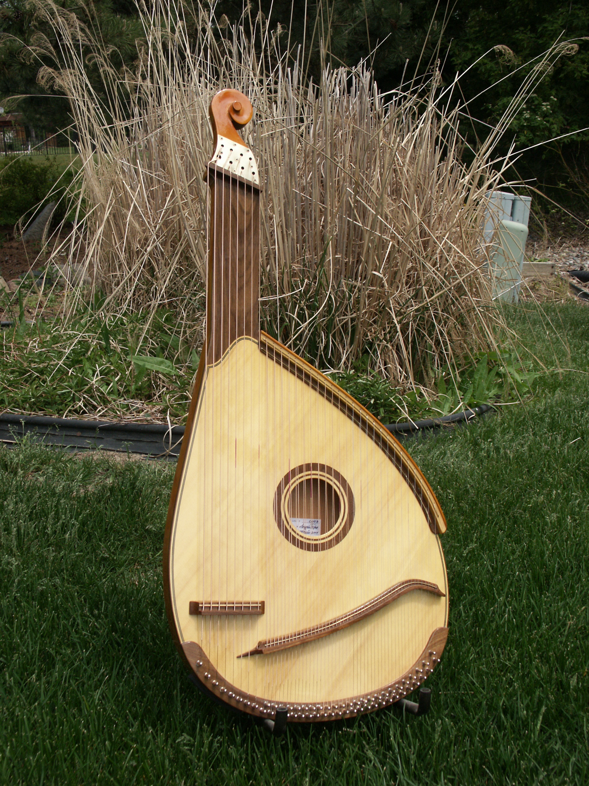 A Kharkiv bandura of Andrij Birko's construction. Completed in April 2008